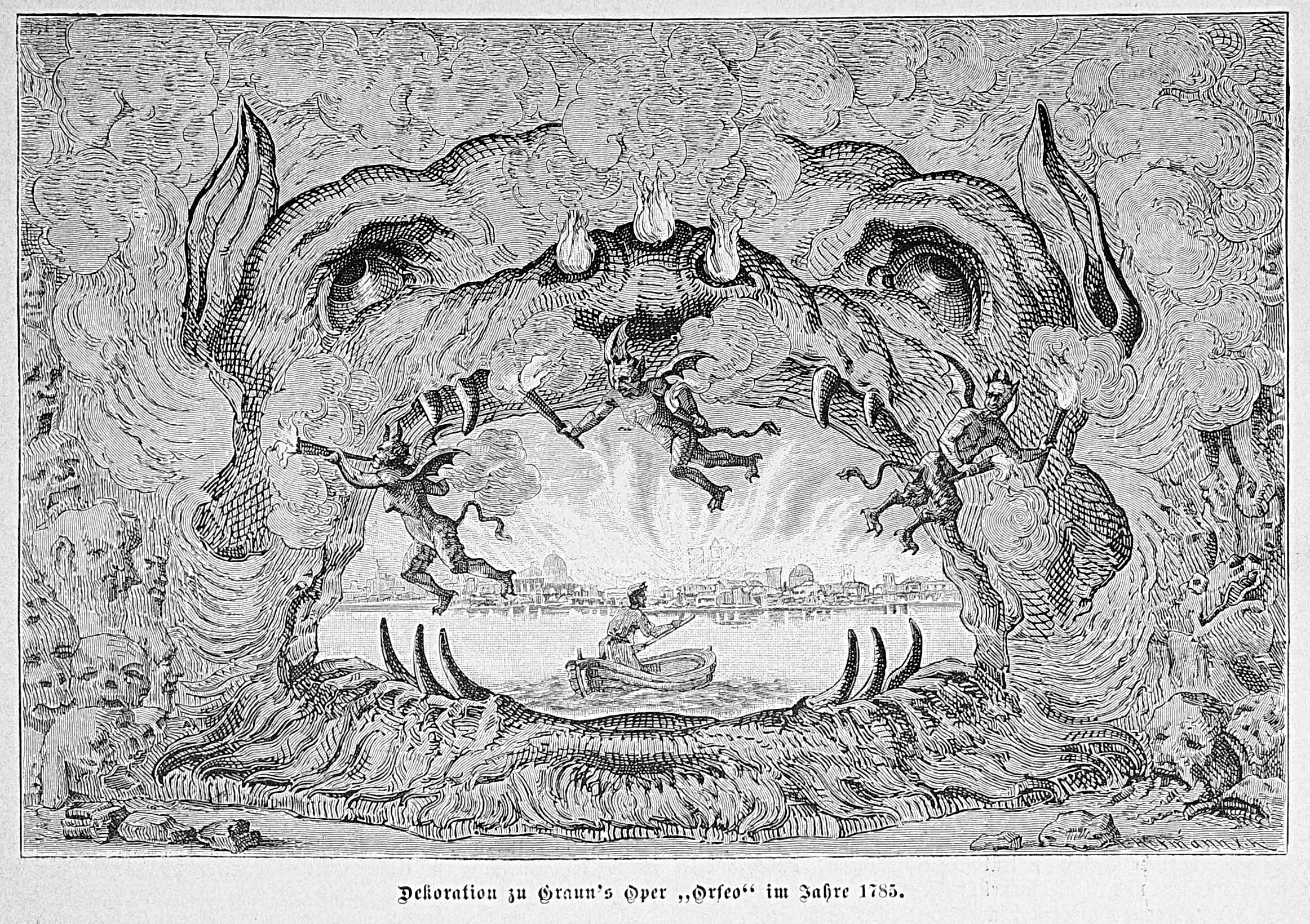 caption: "Dekoration zu Graun’s Oper „Orfeo“ im Jahre 1785."